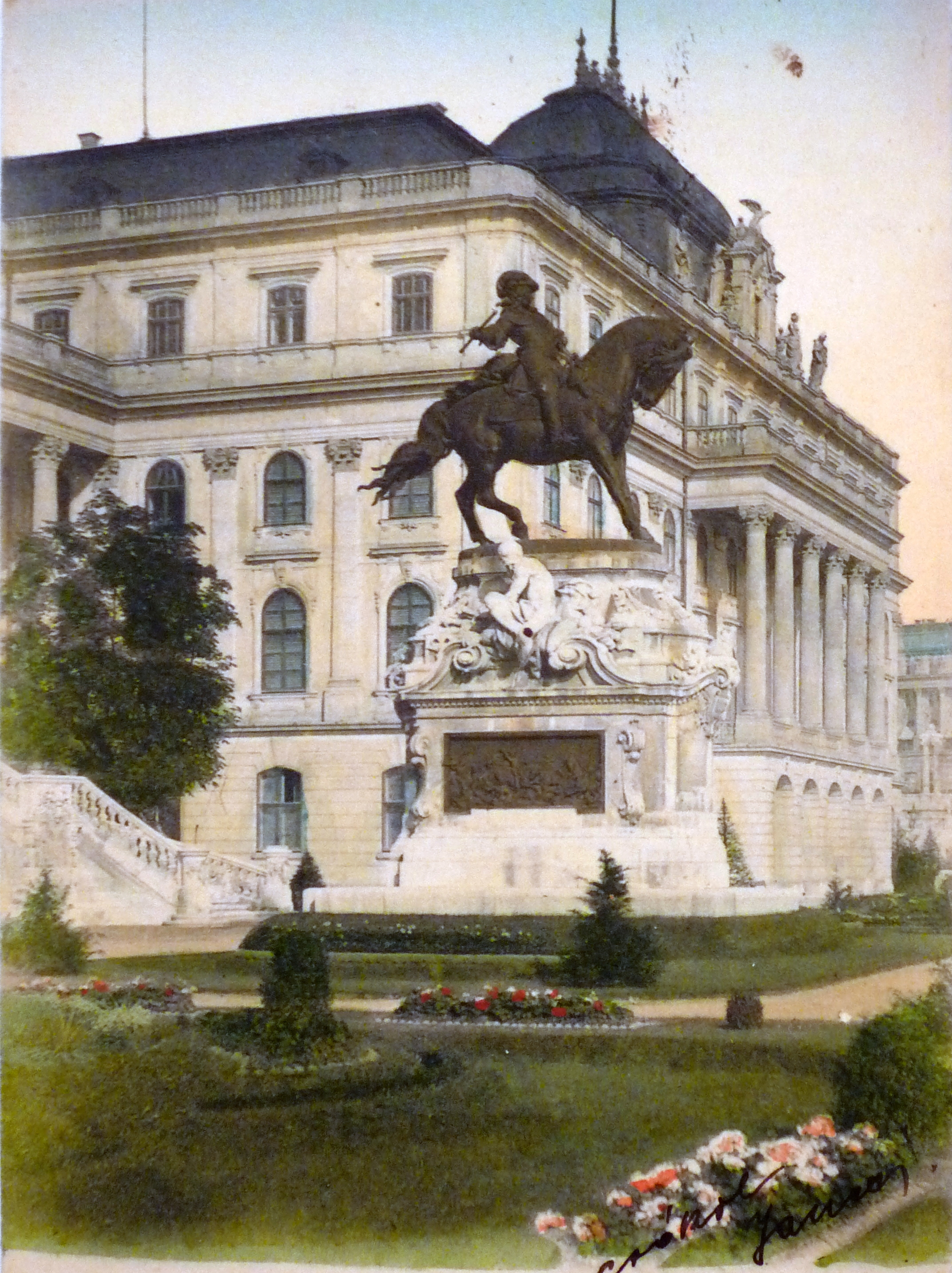 The Danube terrace of Buda Castle with Eugene of Savoy's monument